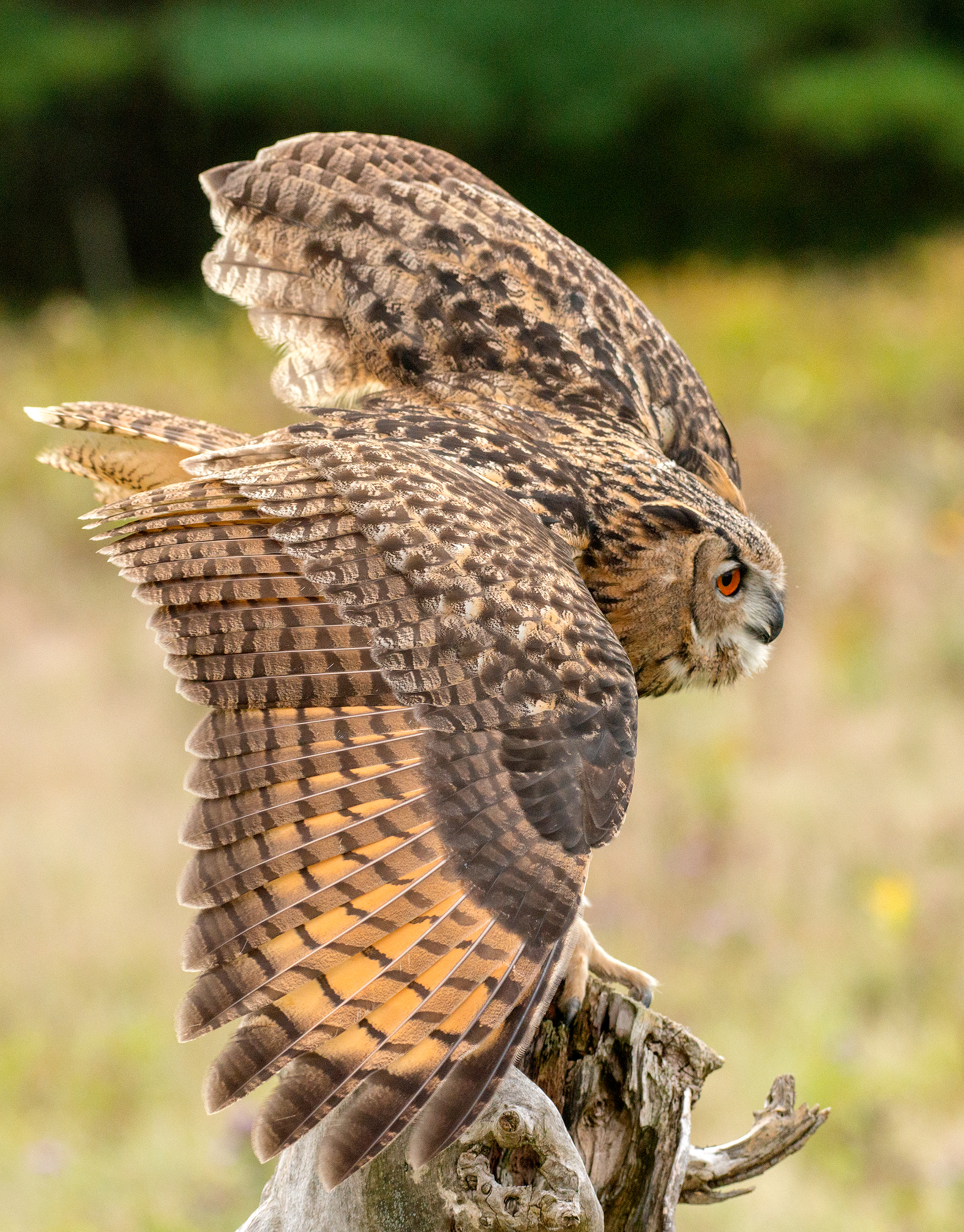 Eurasian Eagle Owl landing, showing much of its camouflage pattern/color